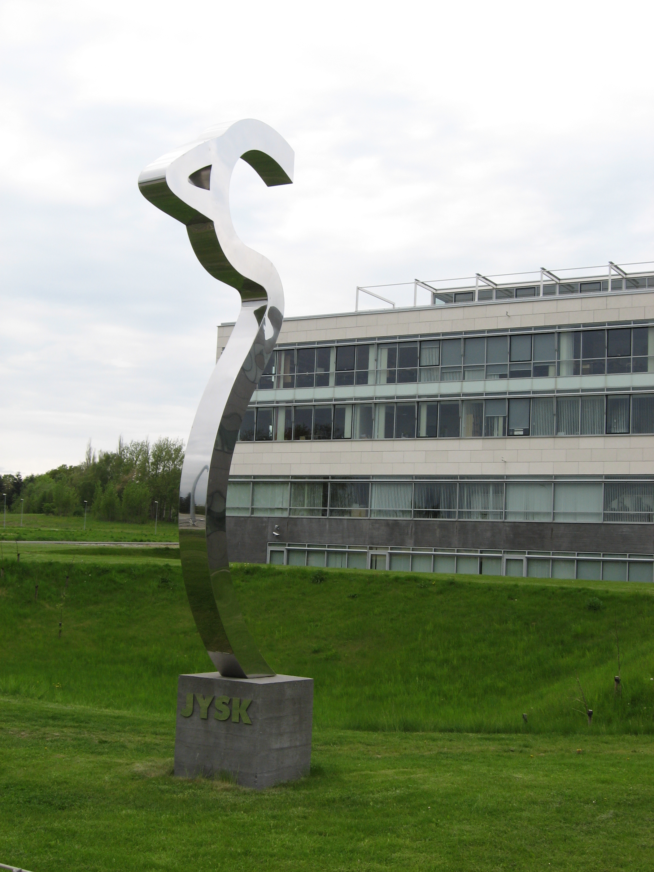 Headquarter of JYSK, a Danish company, in Brabrand, just west of Århus. Sculpture in front in the form of the company's logo.